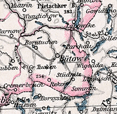 Detail from a map of Pomerania.